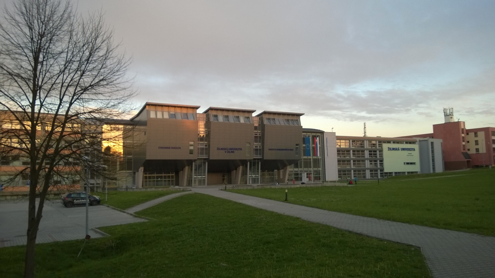 Main building AF - University of Žilina